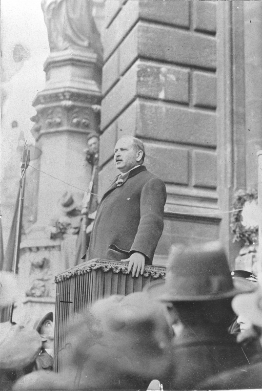 Otto Bauer (1881–1938), Austrian Social Democrat, gives a speech in front of the Vienna City Hall.